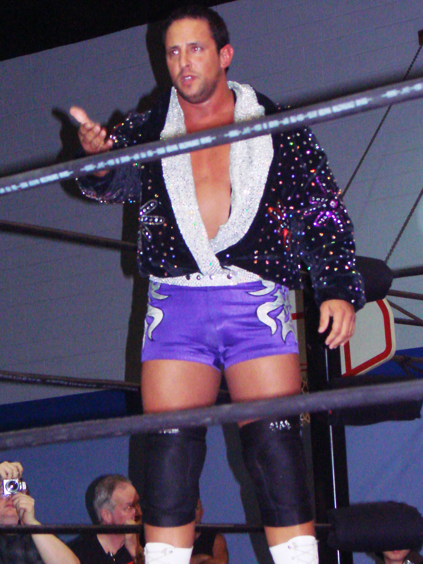 Billy Kidman at an NWA Midwest event. Streamwood, September 222007.